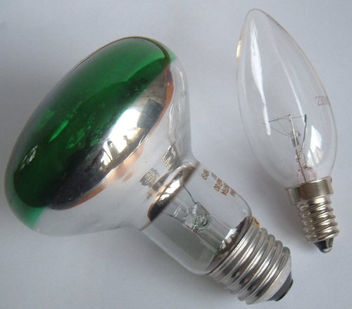 Bulb sockets E14 and E27. 230V, 60W and 25W resp.